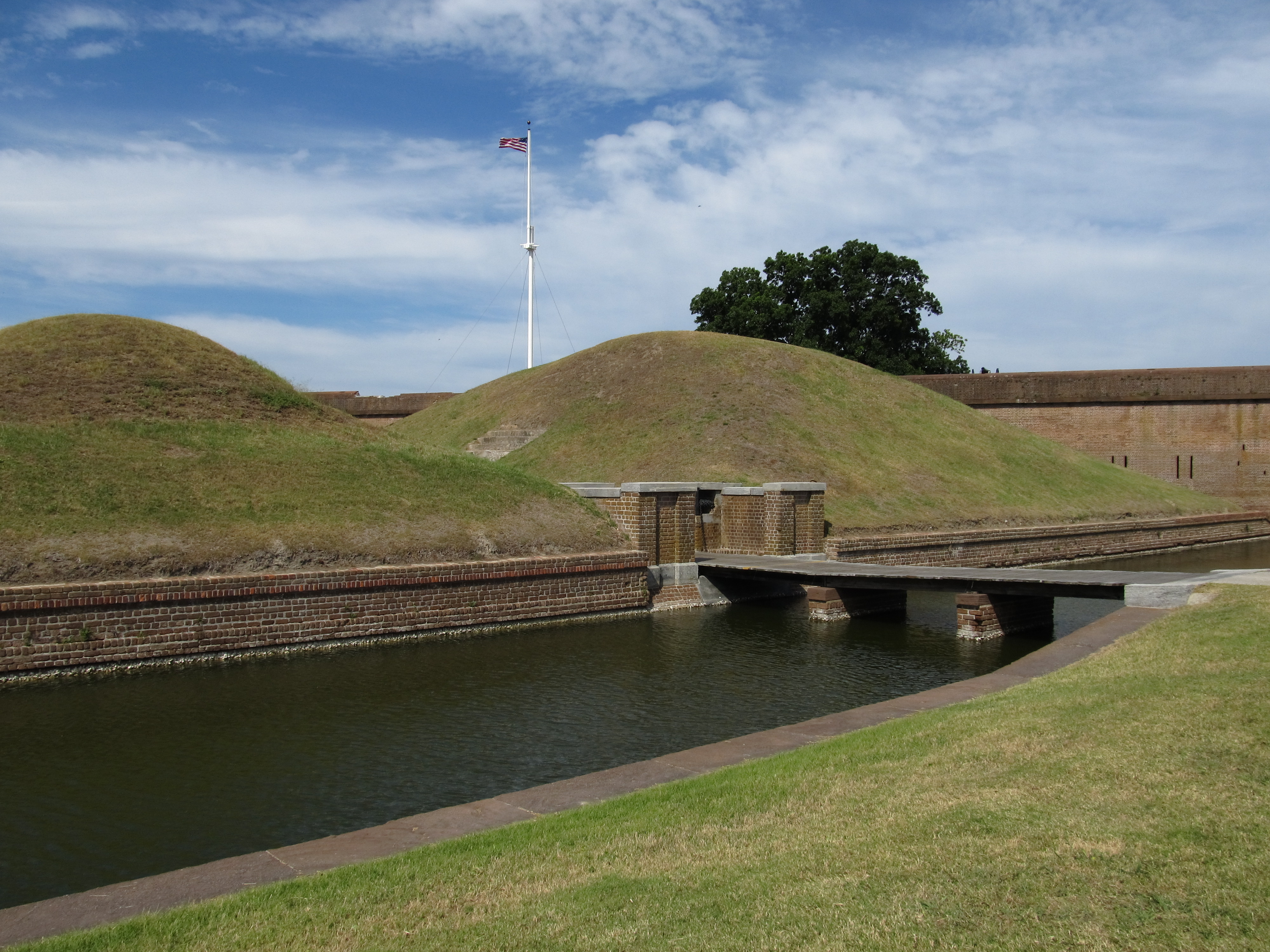 Following the War of 1812, President James Madison ordered a new system of coastal fortifications to protect the United States against foreign invasion. Construction of a fort to protect the port of Savannah began in 1829 under the direction of Major General Babcock, and later Second Lieutenant Robert E. Lee, a recent graduate of West Point. The new fort would be located on Cockspur Island at the mouth of the Savannah River. In 1833, the new fort was named Fort Pulaski in honor of Kazimierz Pulaski, a Polish soldier and military commander who fought in the American Revolution under the command of George Washington. Pulaski was a noted cavalryman and played a large role in training Revolutionary troops. He took part in the sieges of Charleston and of Savannah. Wooden pilings were sunk up to 70 feet (21 m) into the mud to support an estimated 25,000,000 bricks. Fort Pulaski was finally completed in 1847 following 18 years of construction and nearly $1,000,001 in construction costs. Walls were eleven feet thick, thought to be impenetrable except by only the largest land artillery- which at the time were smooth bore cannon. These cannons had a range of only around a half mile, and the nearest land (Tybee island) was much further away than that. It was assumed that the Fort would be invincible to enemy attack.